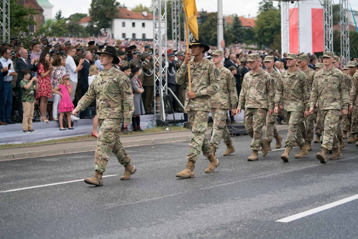 U.S. Army Capt. Samuel Taylor from 1st Squadron, 7th Cavalry Regiment, 1st Armored Brigade Combat Team (1st ABCT) “Ironhorse,” 1st Cavalry Division leads his formation in the Polish Armed Forces Day Parade Aug. 15, 2018, in Warsaw, Poland. Over 40 Ironhorse brigade Soldiers and numerous vehicles participated in the parade. The 1st ABCT is deployed in support of Atlantic Resolve, an exercise committed to peace, security and stability in Europe.